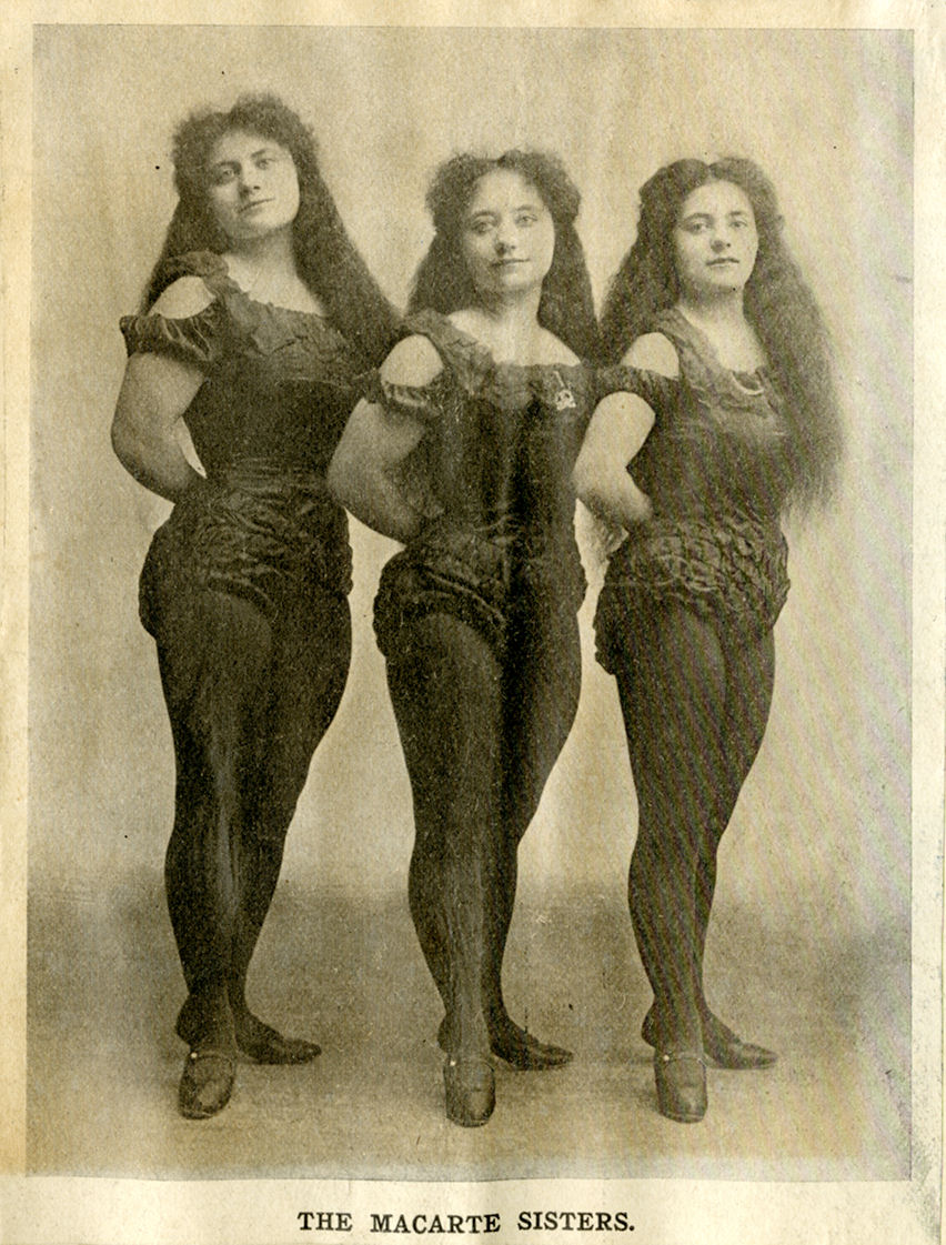 The trapeze and strongwoman act the Sisters Macarte c1906